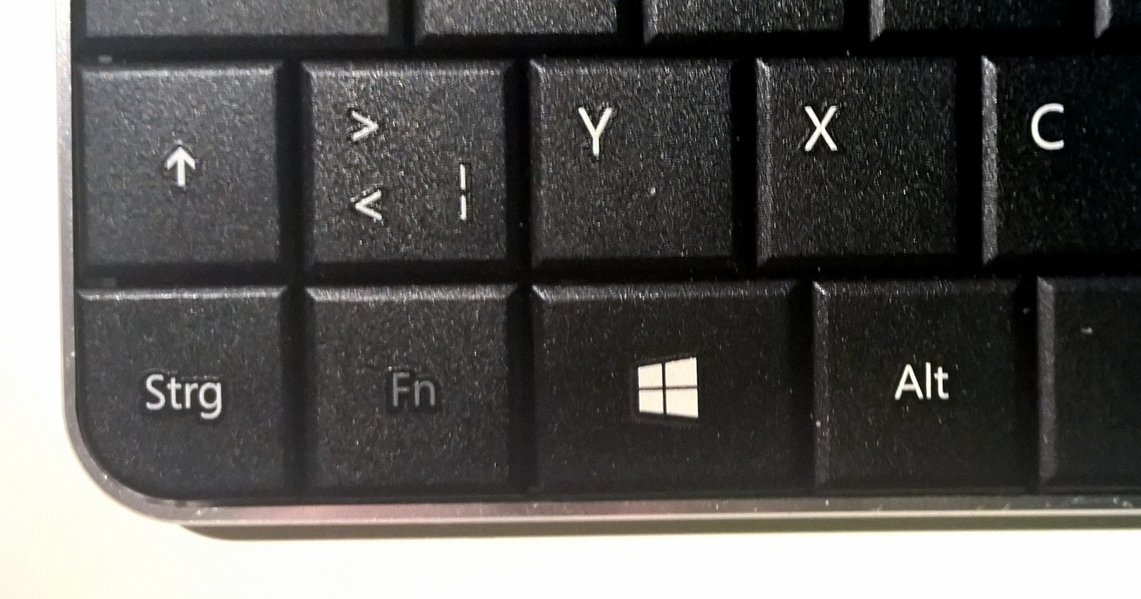 Current version of the "Windows-Key", as it started to ship on keyboards designed for Windows 8 and onwards